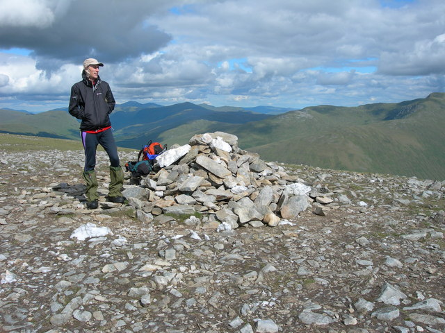 Summit cairn of Beinn Mhanach